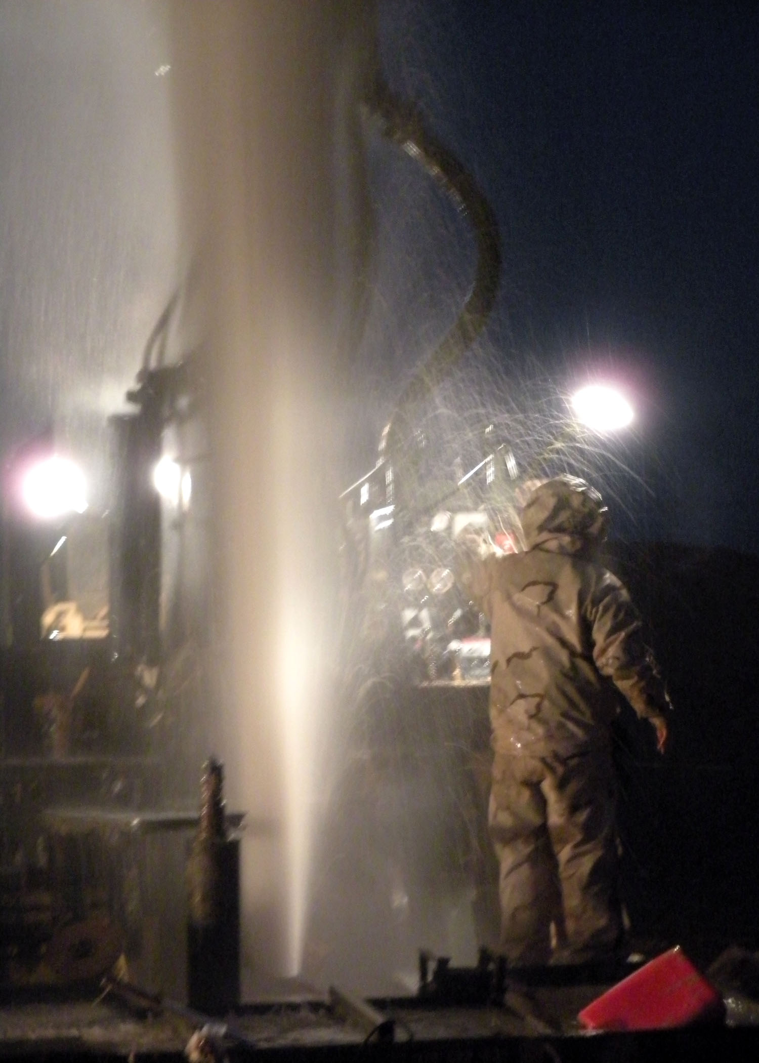 HELMAND PROVINCE, Afghanistan (Dec. 31, 2009) Equipment Operator 1st Class Aaron Nagel, assigned to the Water Well Detachment of Naval Mobile Construction Battalion (NMCB) 74, taps the team's first artesian well in Afghanistan. The detachment is conducting operations in southern Afghanistan, providing critical water sources and self-sustainability to U.S. and coalition forces assigned to the area. (U.S. Navy photo by Hospital Corpsman 1st Class Ken Mazer/Released)